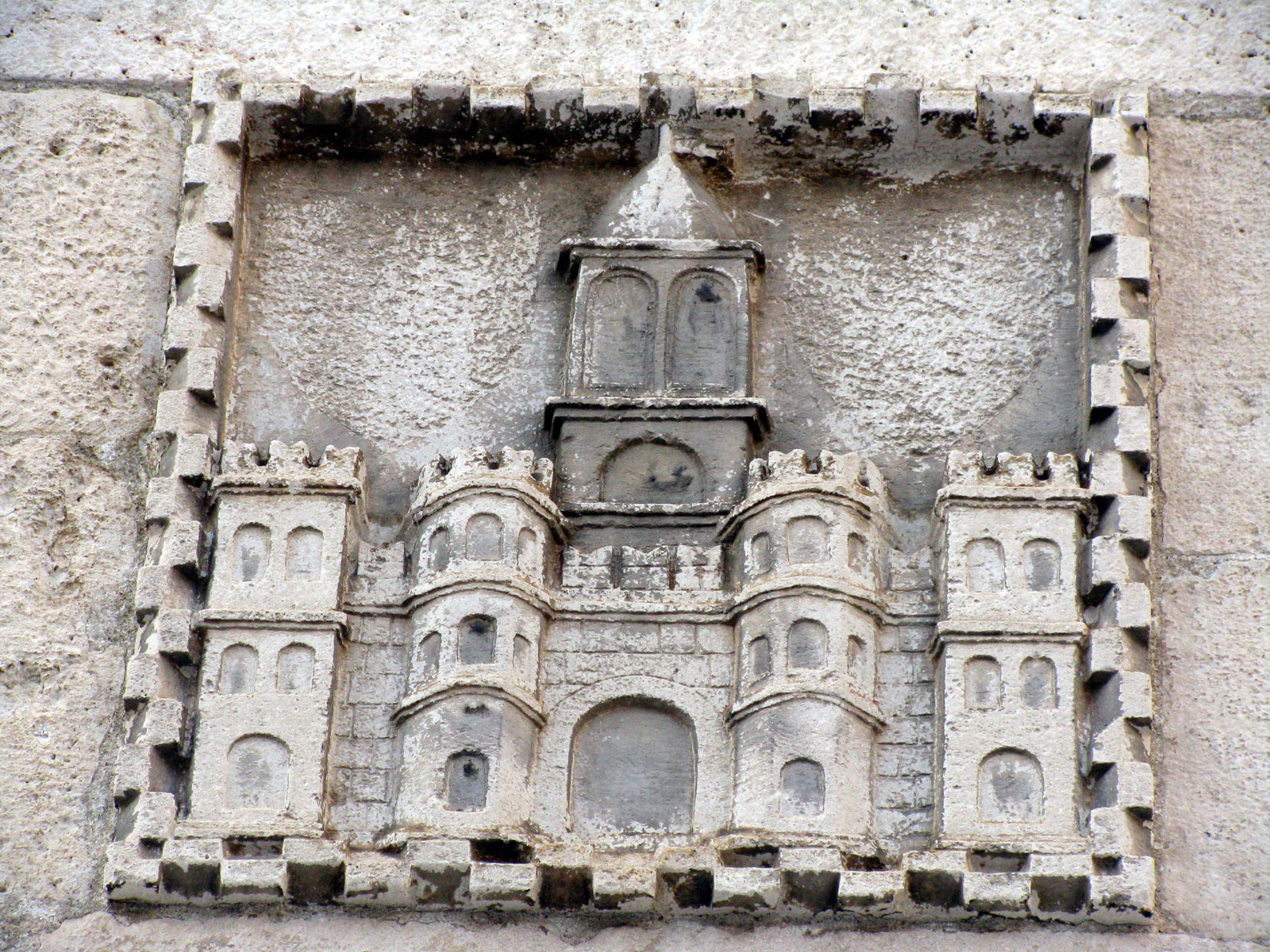 COA of Split, Croatia, on the wall of Ethnographic museum